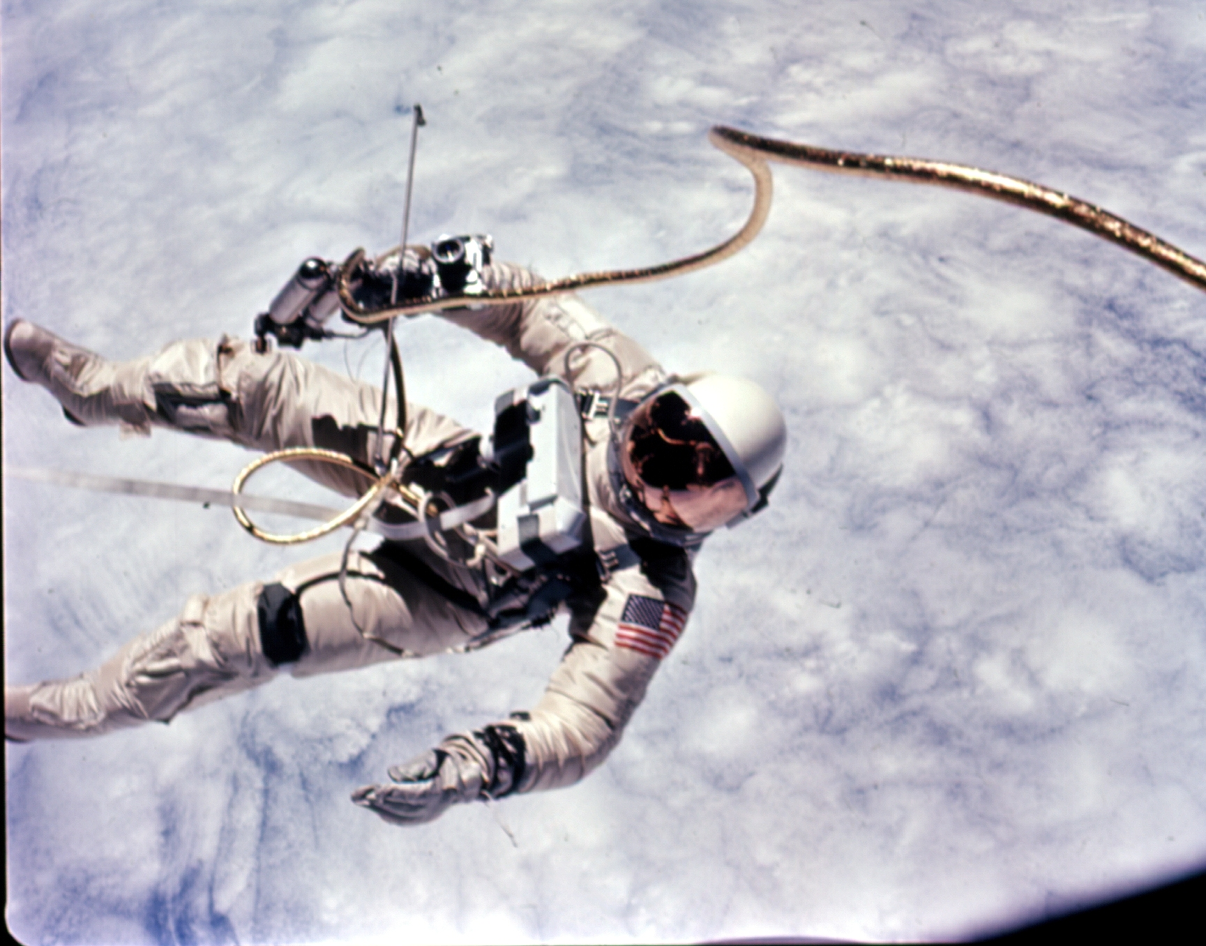 Derived from: File:Ed White with Space Gun maneuvering unit.jpg